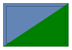 Division Patch of the 7th Canadian Infantry Division